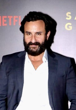 Indian actor Saif Ali Khan at an event for the Netflix series Sacred Games (2018)